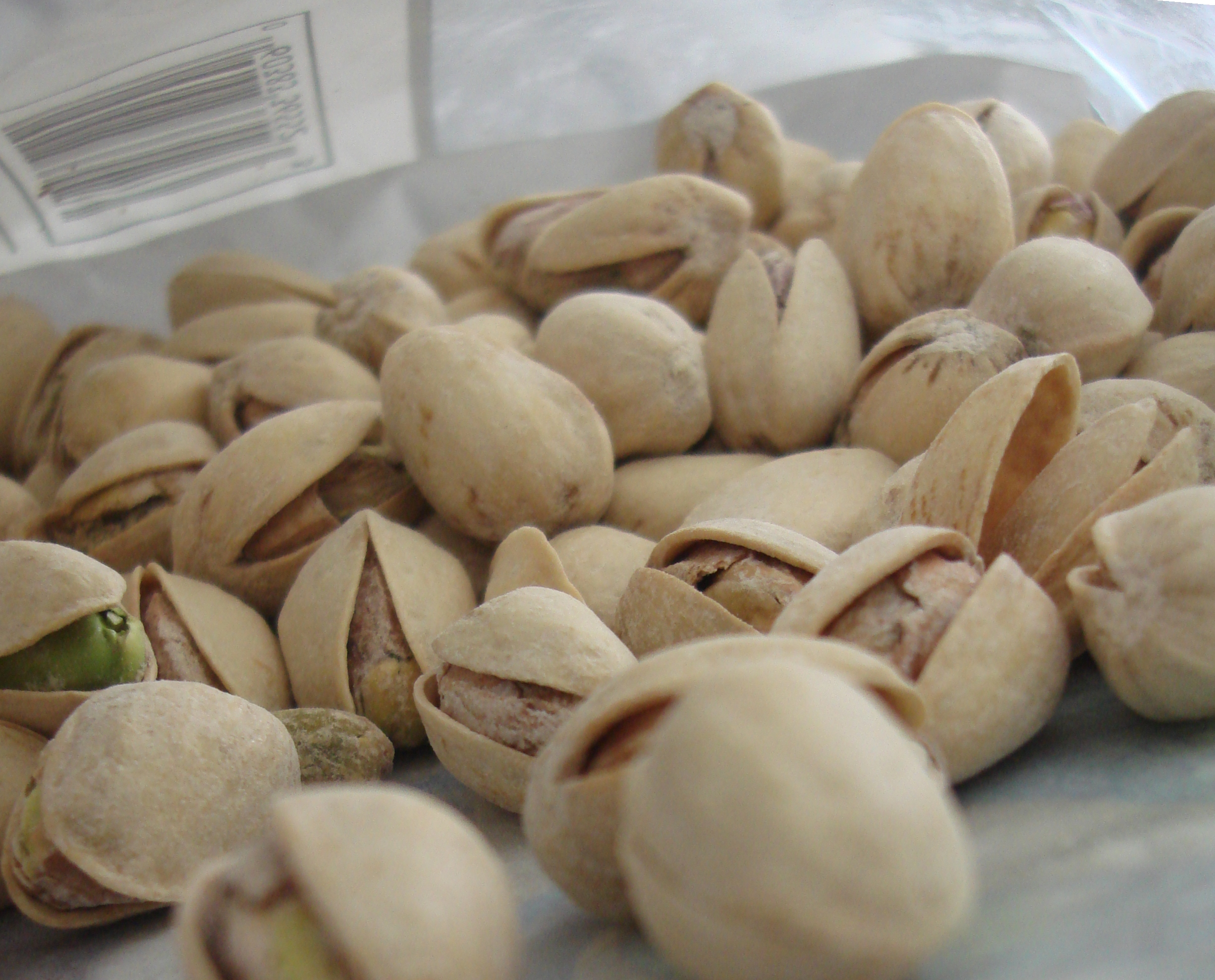 Bag of pistachios from the grocery store; picture was taken with the camera in the bag (as the pistachios were almost gone).